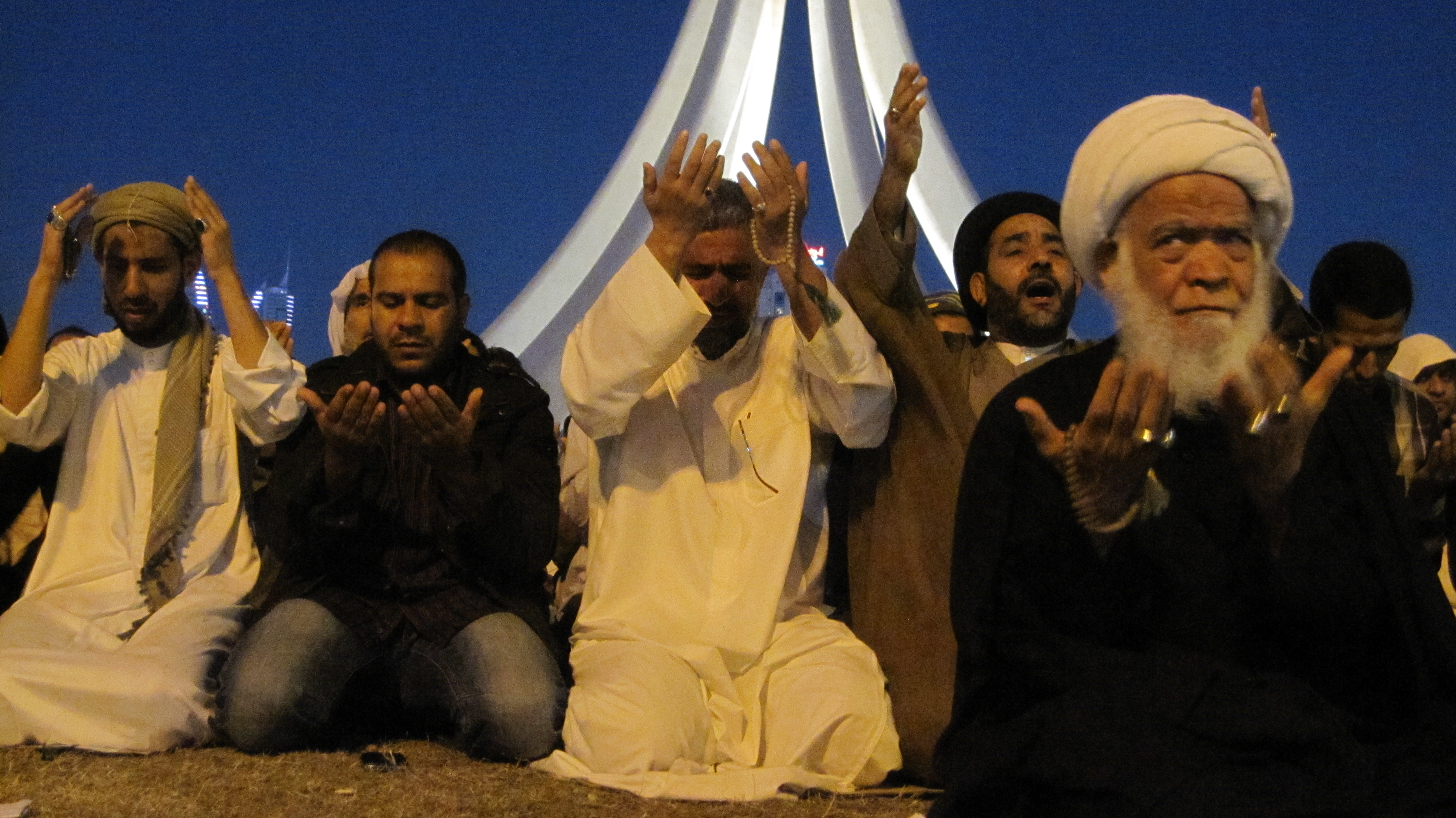 Worshipers finishing prayers with a backdrop of national instability and political turmoil.